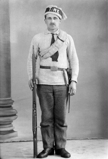 Red soldier